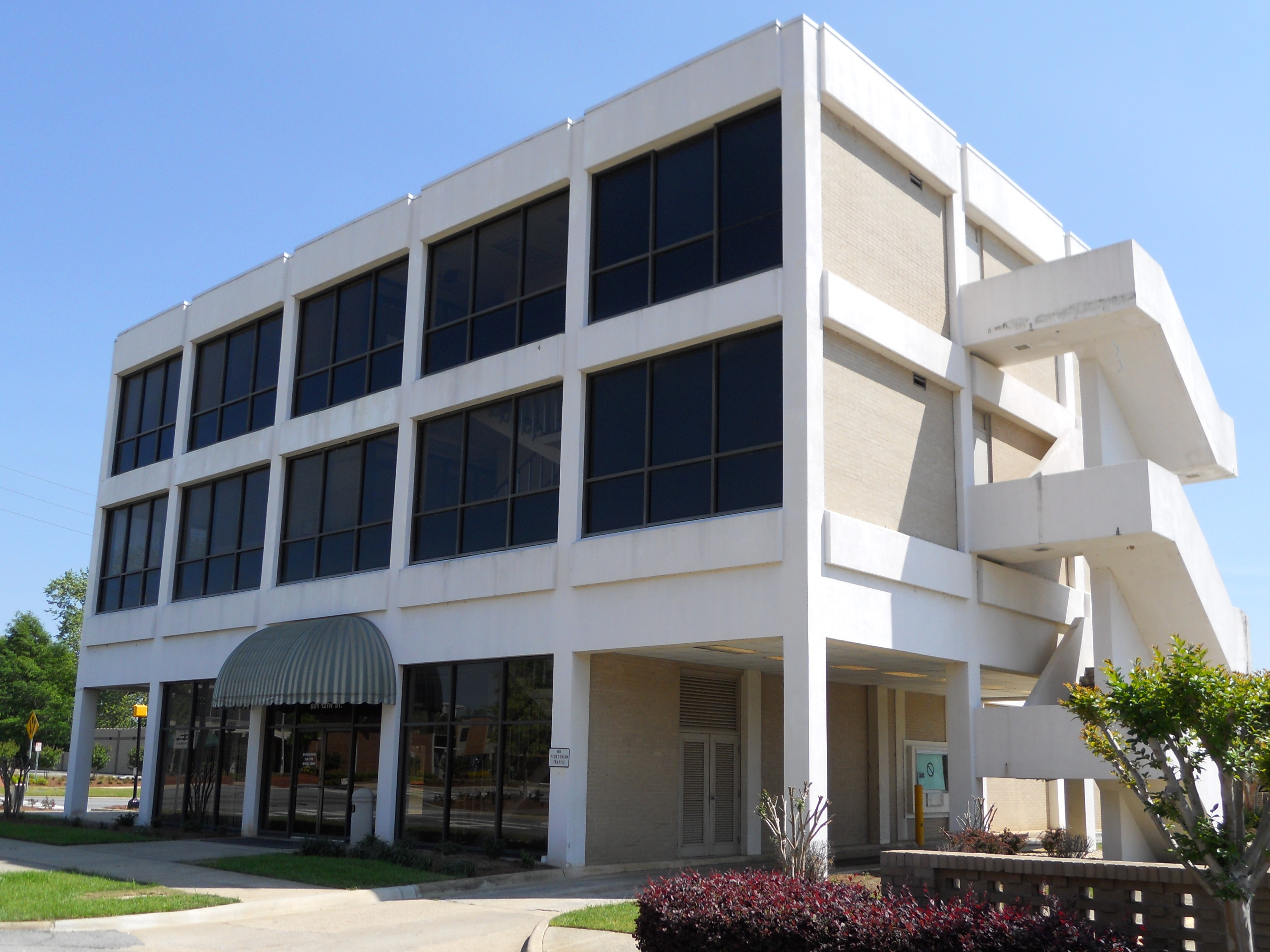 This is a photograph of the Phenix City Municipal Building located in Phenix City, Alabama.